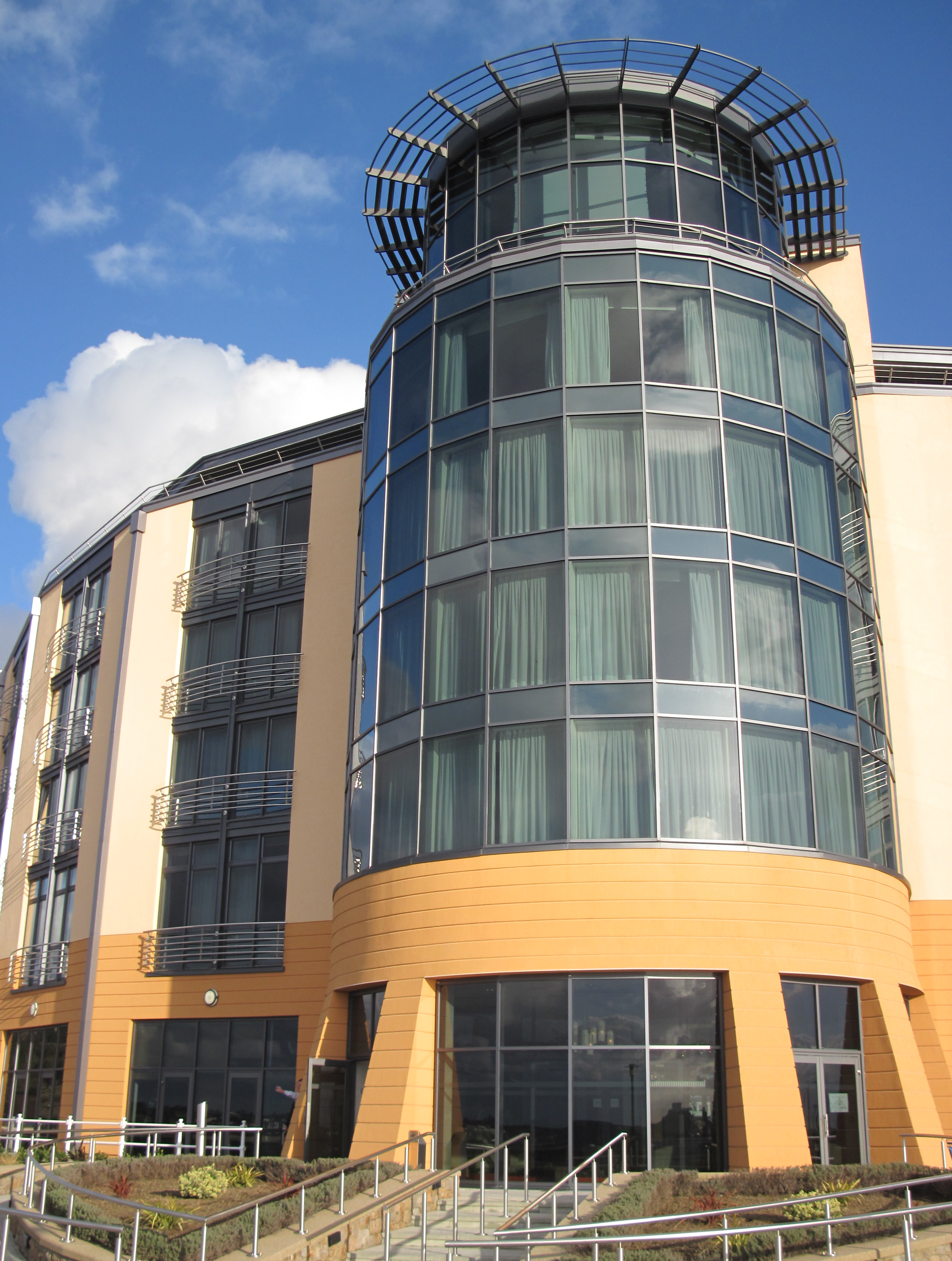 By the edge of the town and Harbour Quarter, Jersey, New Year's Day, 2010